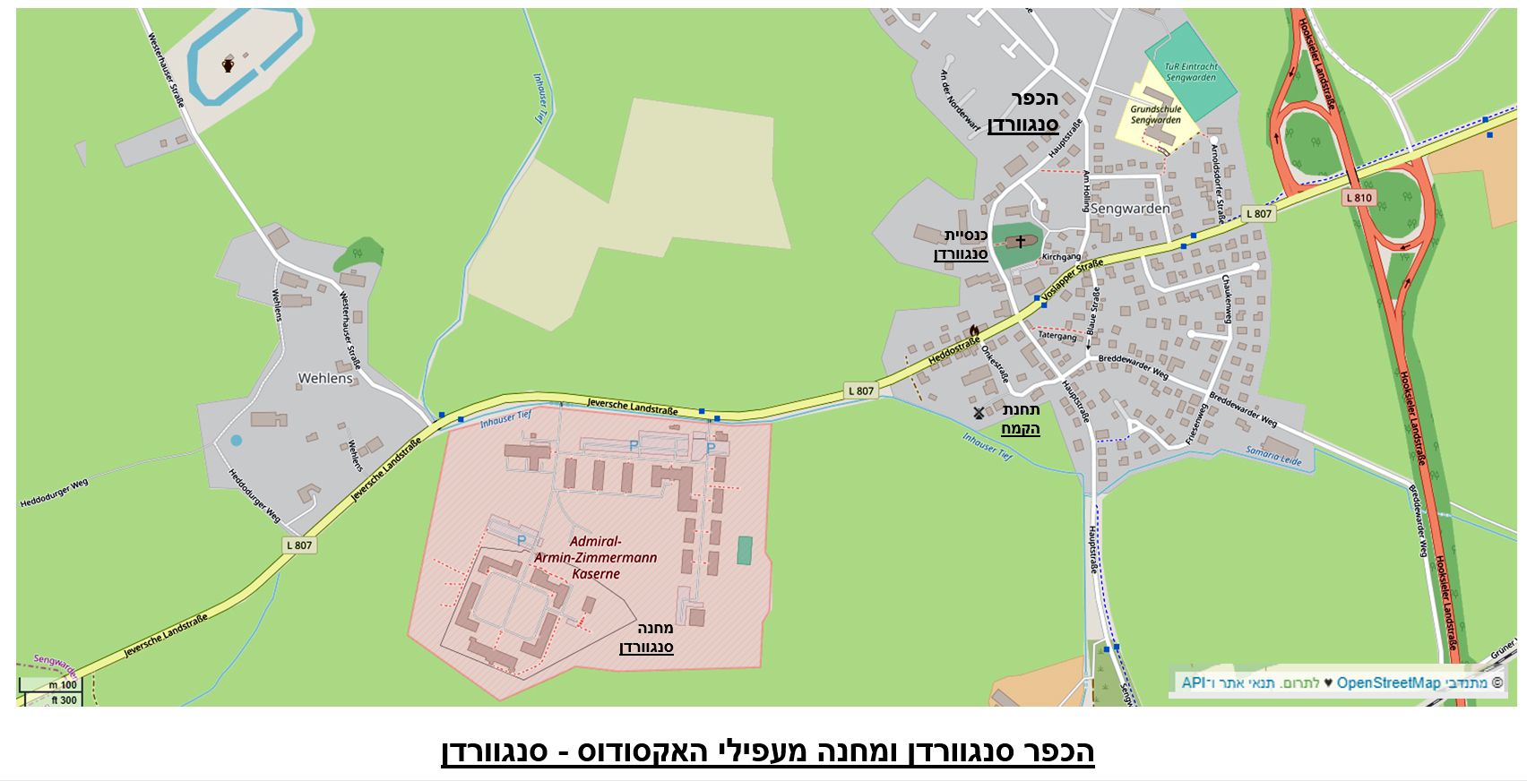 Map of Sangwarden and the Army Admiral-Armin-Zimmermann-Kaserne This map of Openstreetmap was created from OpenStreetMap project data, collected by the community. This map may be incomplete, and may contain errors. Don't rely solely on it for navigation.